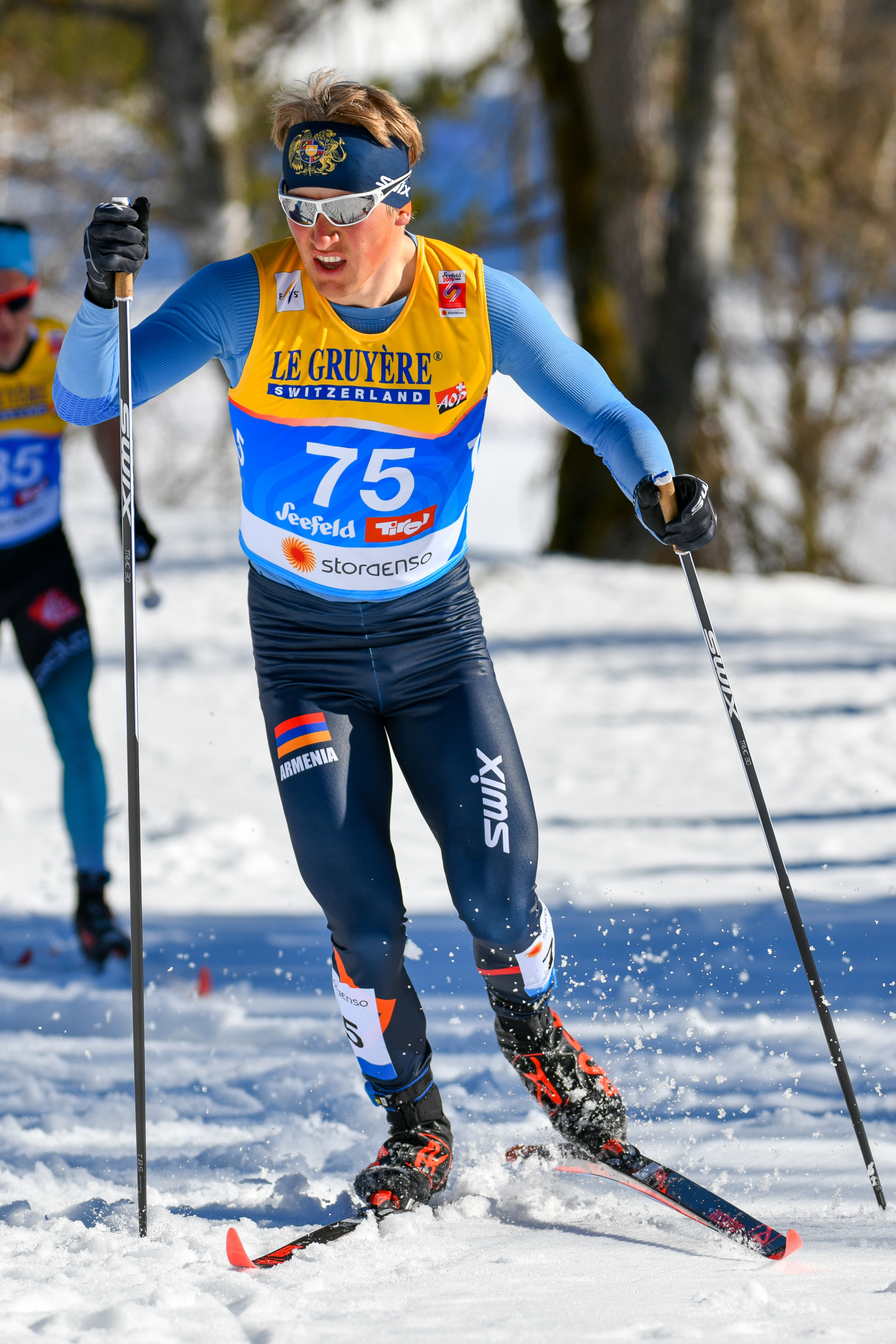 FIS Nordic Wolrd Ski Championships Seefeld 2019 - Men 15km Interval Start Classic. Picture shows Mikayel Mikayelyan (ARM).